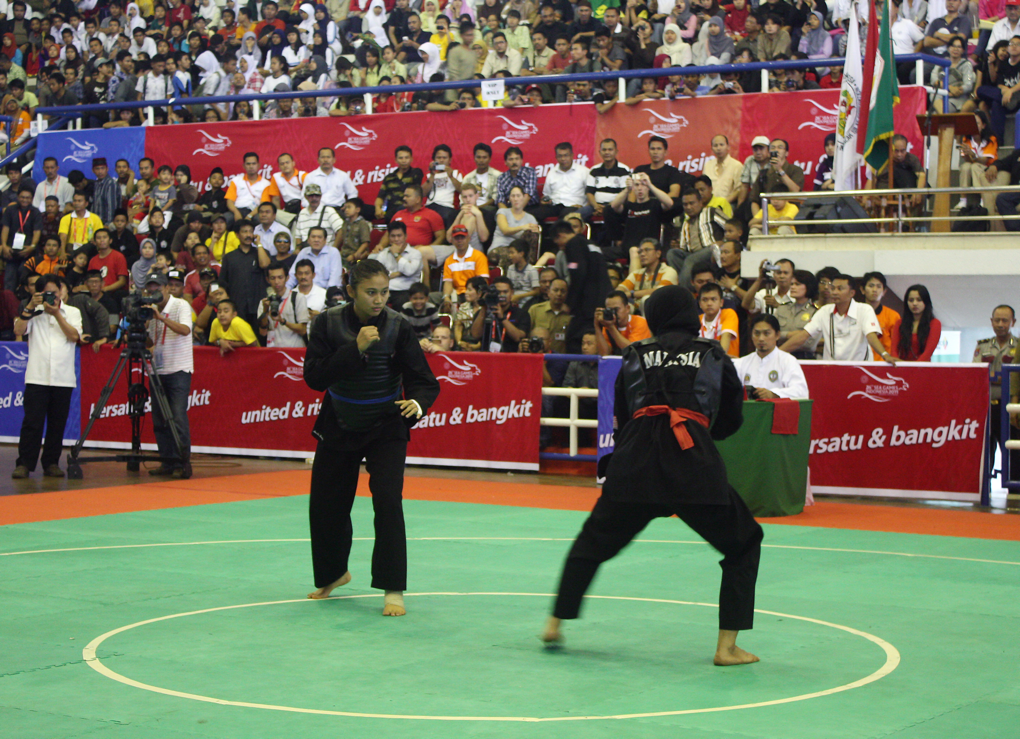 The Pencak Silat final match for category Women Class E 65kg - 70kg. In left Amelia Roring (Indonesia - Gold medal) vs Siti Rahmah Mohamed Nasir (Malaysia - Silver medal). 17 November 2011 in 26th Southeast Asian Games 2011 at Padepokan Pencak Silat Taman Mini Indonesia Indah, East Jakarta, Indonesia.